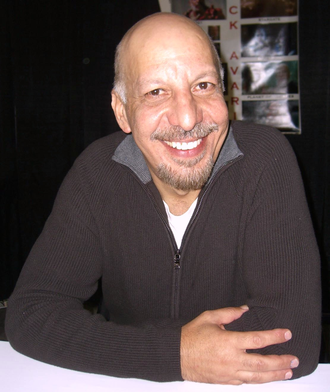 Actor Erick Avari at the Big Apple Convention in Manhattan. Photographed by Luigi Novi. This photo may only be used if the photographer is properly credited. (See Licensing information below.)